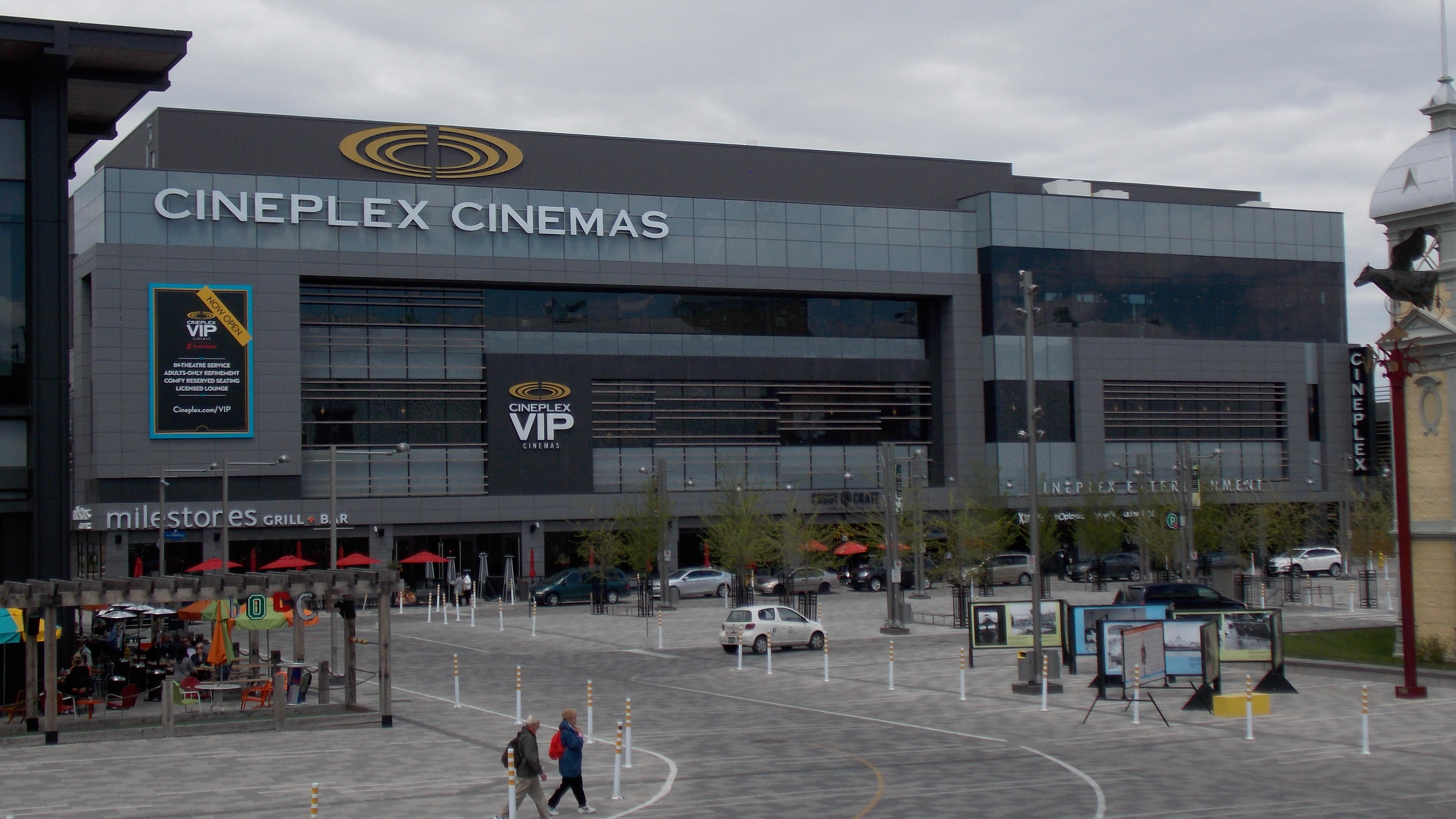 The Cineplex Cinemas Lansdowne & VIP in the Glebe neighbourhood of Ottawa, Ontario, Canada.